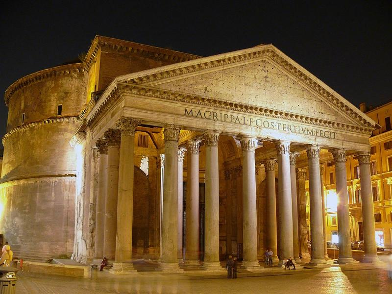 Pantheon by night